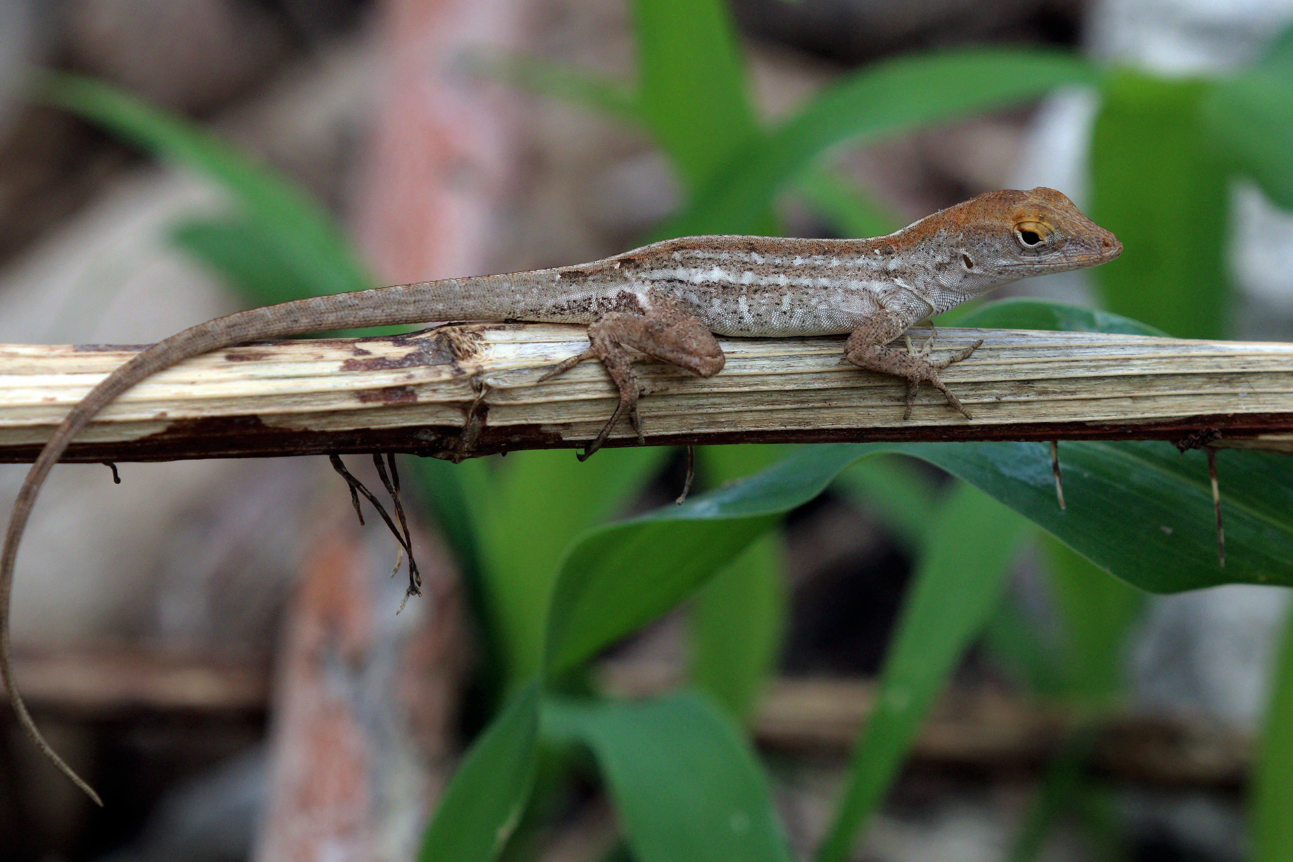 Cuban brown anole (Anolis sagrei sagrei) juvenile, Grand Cayman